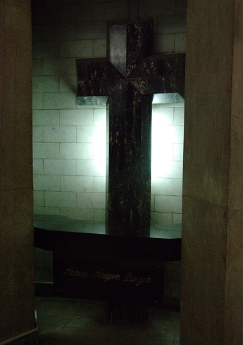 Tomb of First Lady Aurora Quezon, inside Quezon Memorial, Quezon City